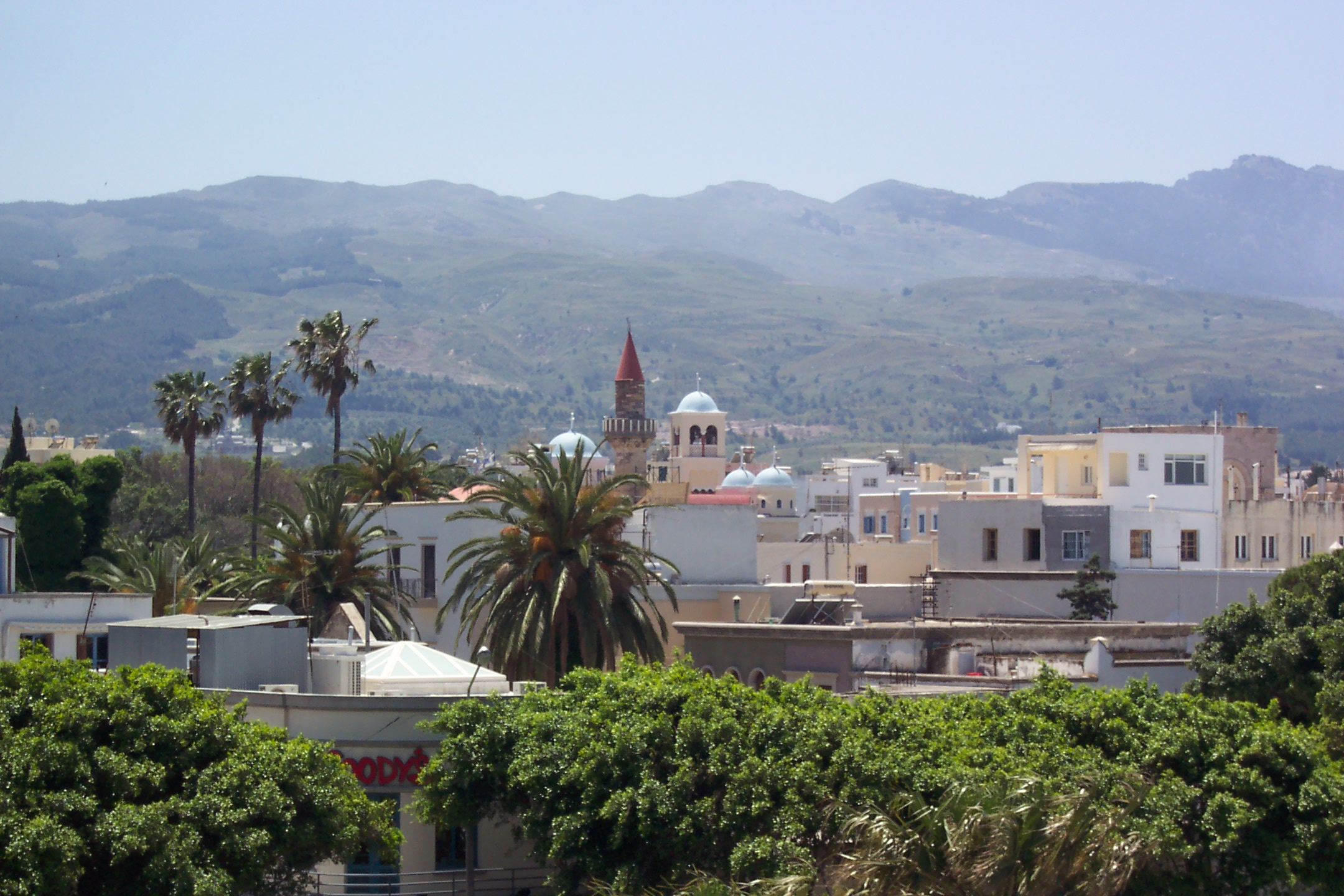 A view across Kos town from the fortress looking towards the mountains. The blue domes are of the Agia Paraskevi church and the minaret is of the Defterdar Mosque, both in Eleftherias Square.